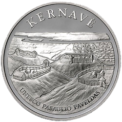 50 litas coin dedicated to Kernavė (from the series "Historical and Architectural Monuments of Lithuania") Silver Ag 925 Quality proof Diameter 38.61 mm Weight 28.28 g The words on the edge of the coin: ISTORIJOS IR ARCHITEKTŪROS PAMINKLAI (HISTORICAL AND ARCHITECTURAL MONUMENTS) Designed by Giedrius Paulauskis Mintage 2,000 pcs Issued 2005 The coin was minted at the state enterprise Lithuanian Mint.